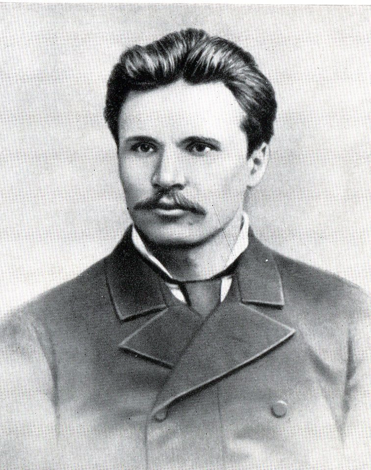 Dmytro Yavornytsky (Дмитро Яворницький), a Ukrainian historian, ethnographer who is regarded as widely revered as "the Father of the Zaporozhian Cossacks".